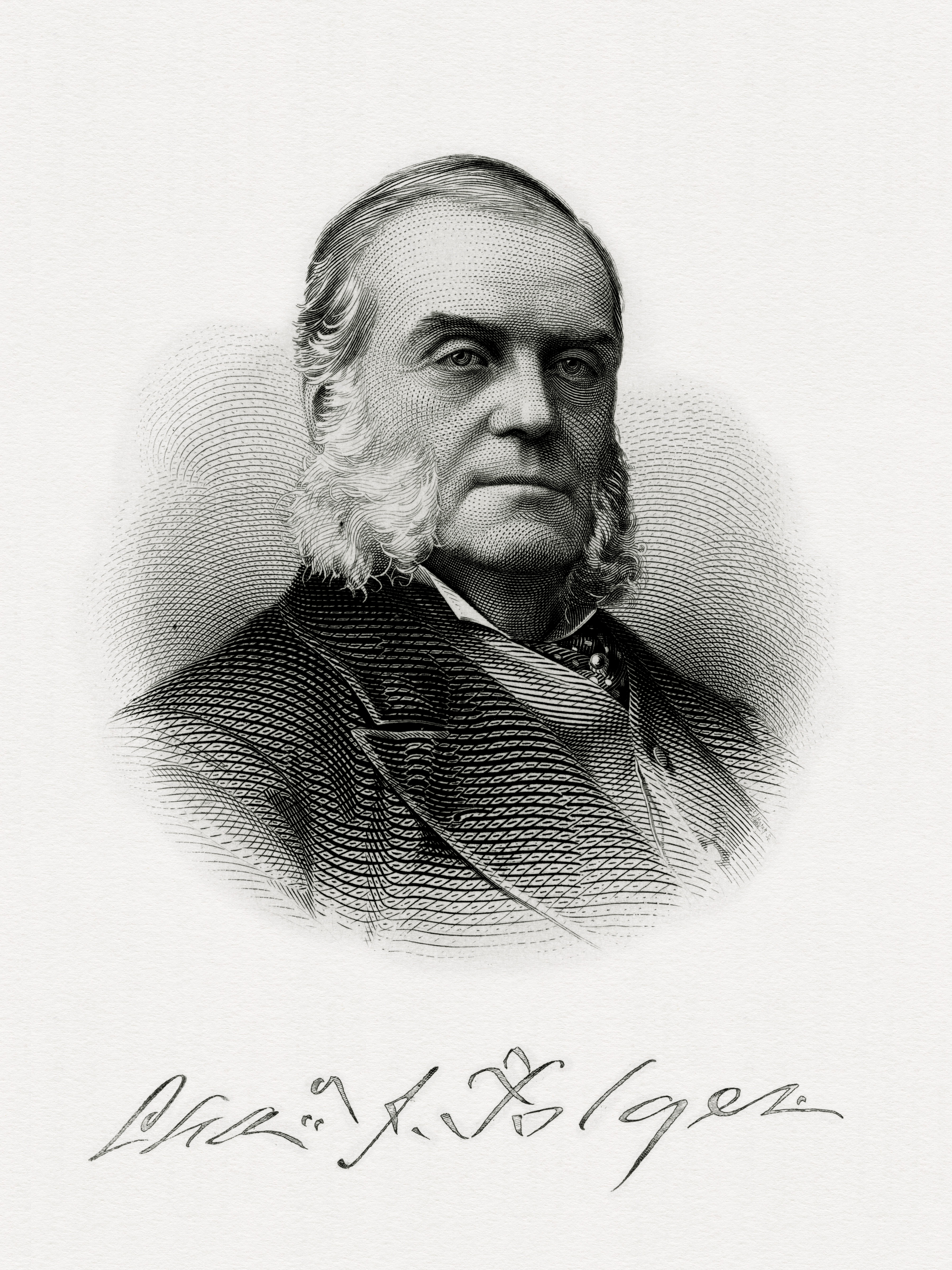 Engraved BEP portrait of U.S. Secretary of the Treasury Charles J. Folger